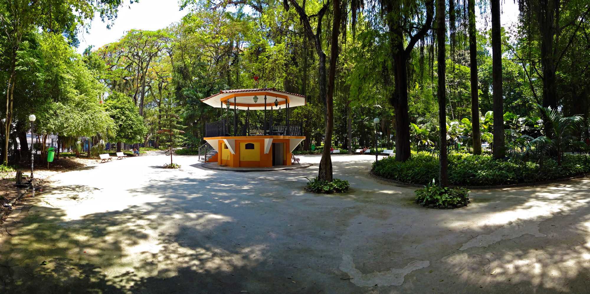 Jardim Centenáirio Barra Mansa - Jardim das Preguiças